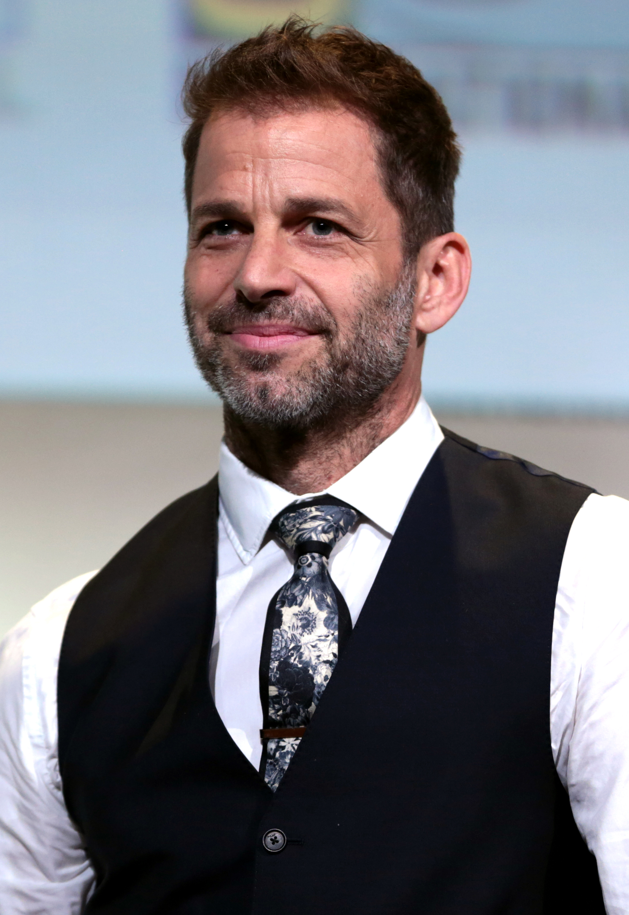 Zack Snyder speaking at the 2016 San Diego Comic-Con International in San Diego, California.